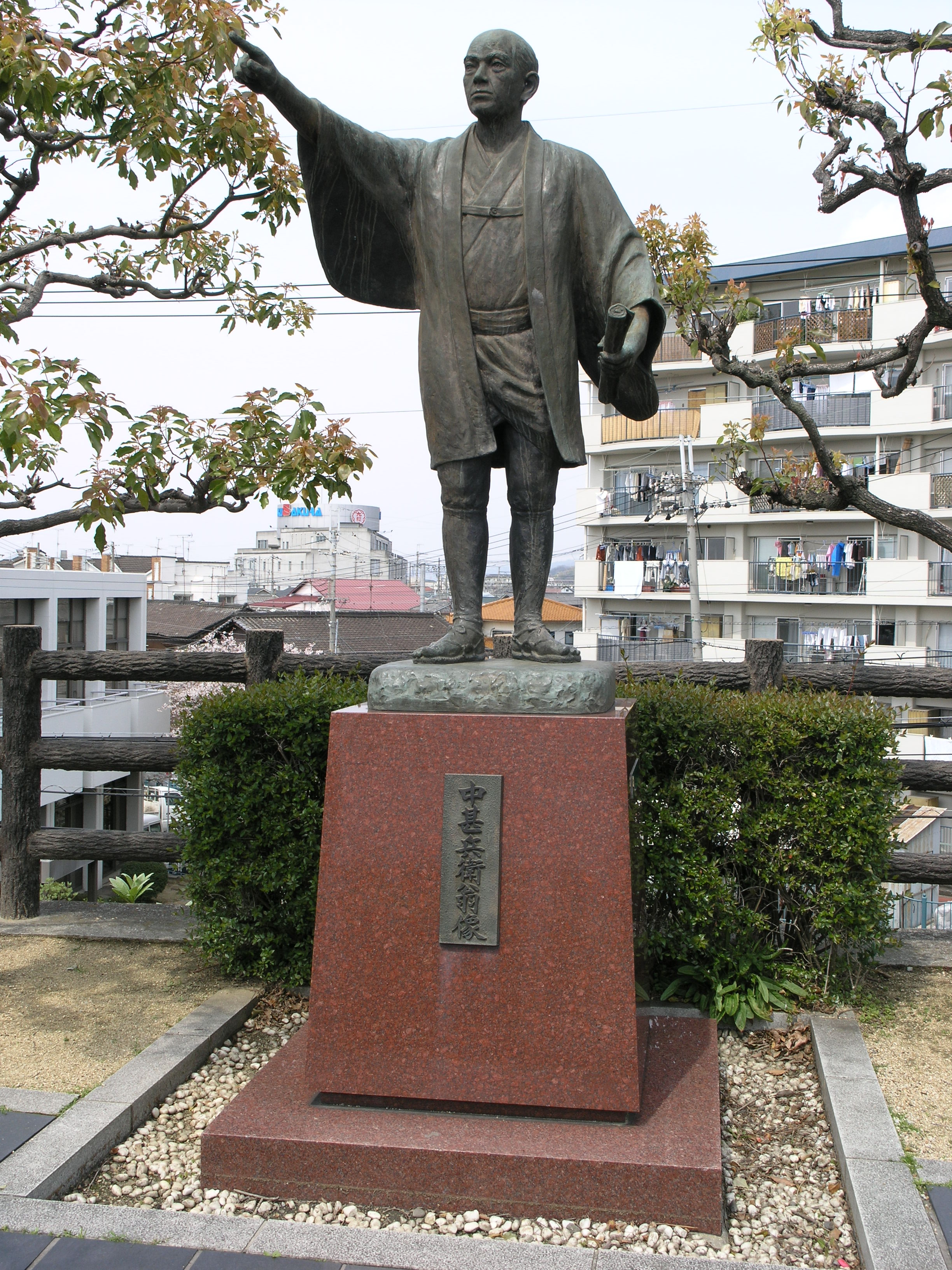 Naka_Jinbei_bronze_statue in Kashiwara, Japan.